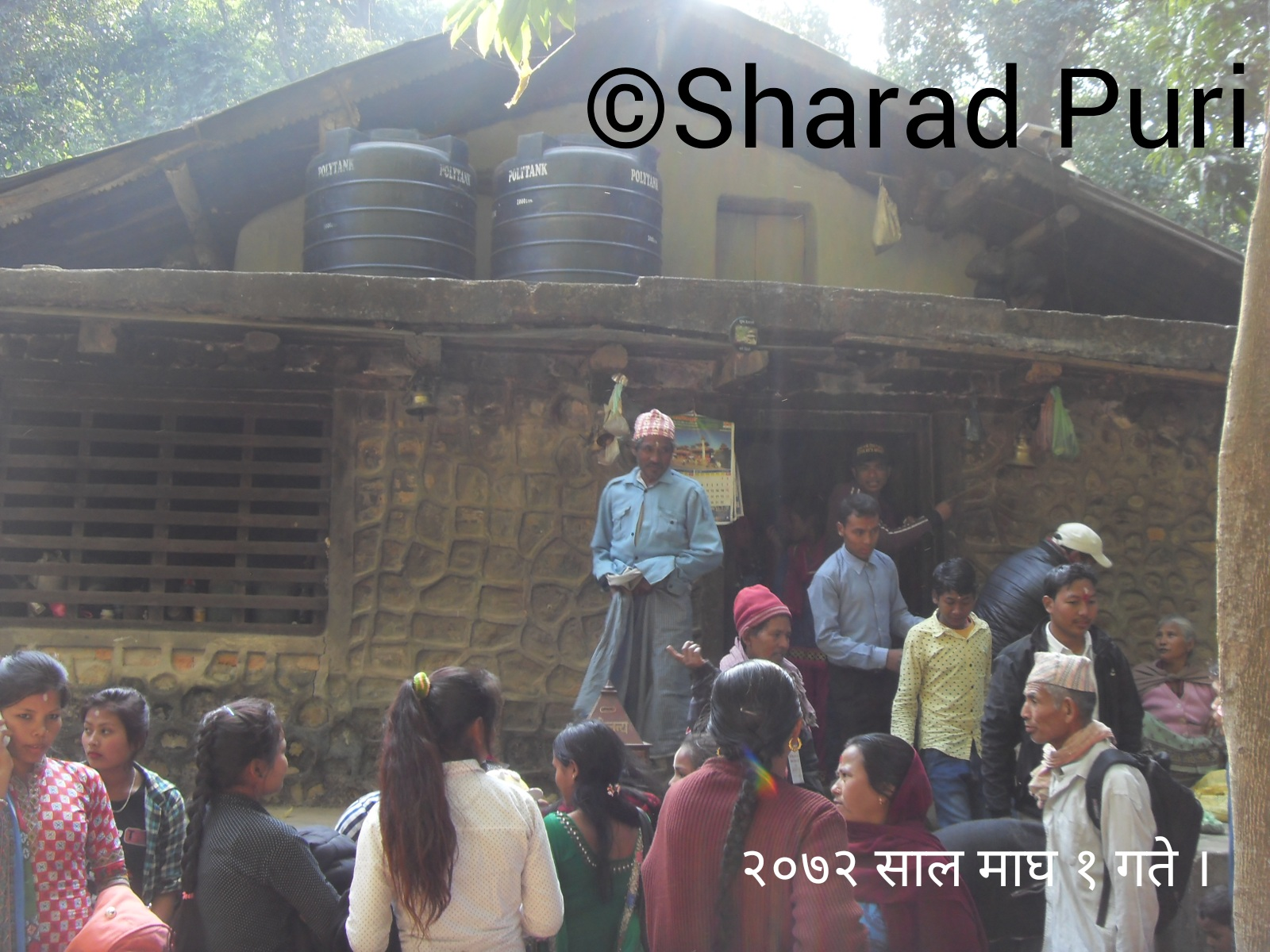 Siddha Baghnath Baba Jungle Kuti.